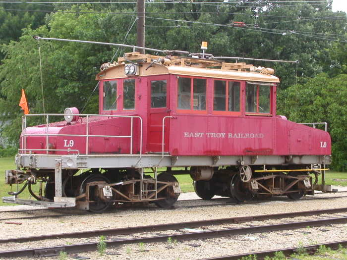 East Troy Electric Railroad L9, formerly Milwaukee Electric Railway & Transport Company L9, outside the East Troy barn on July 8, 2003. Photo by Frank Hicks.